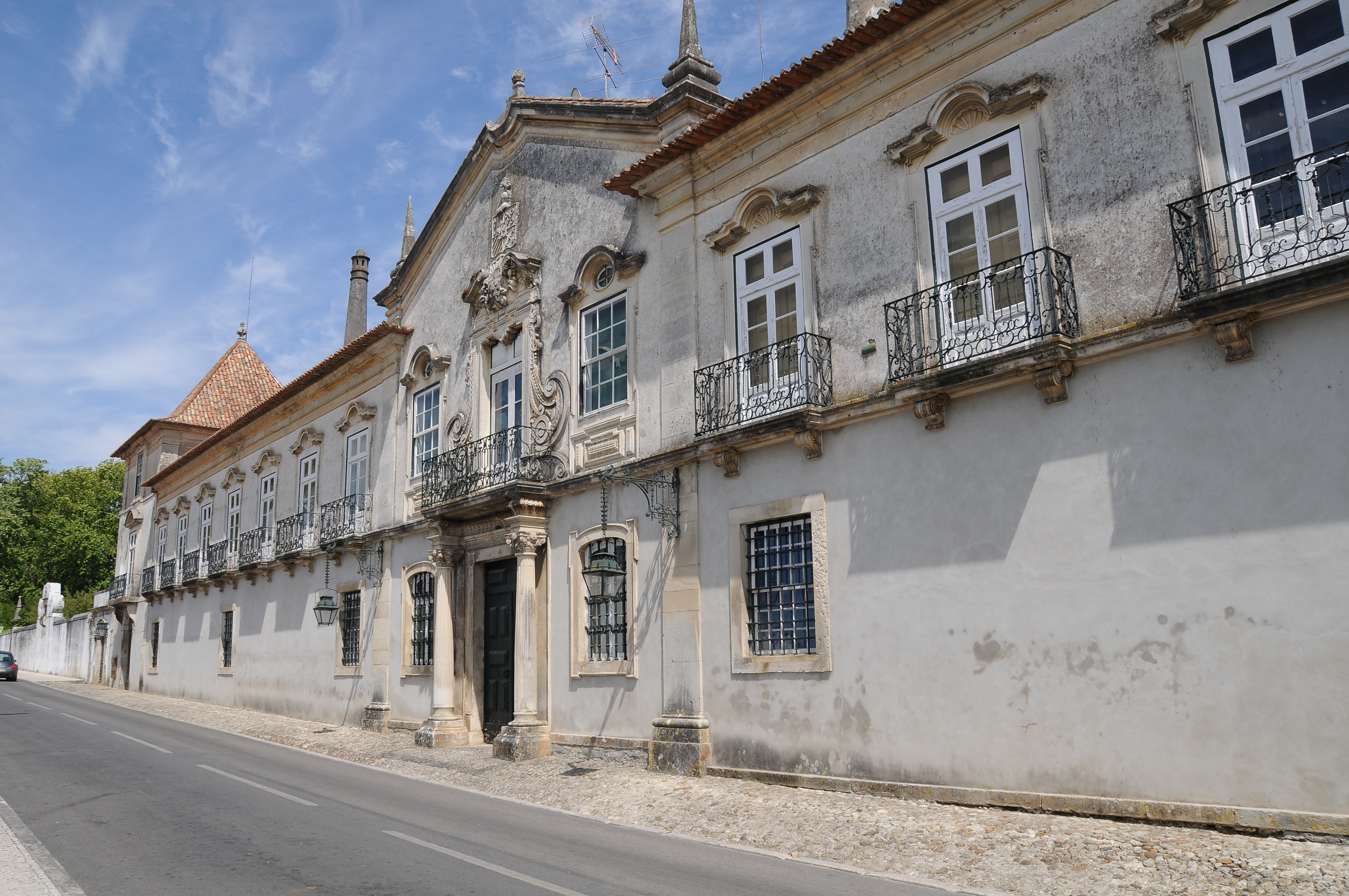 Lemos Palace in Condeixa Portugal.